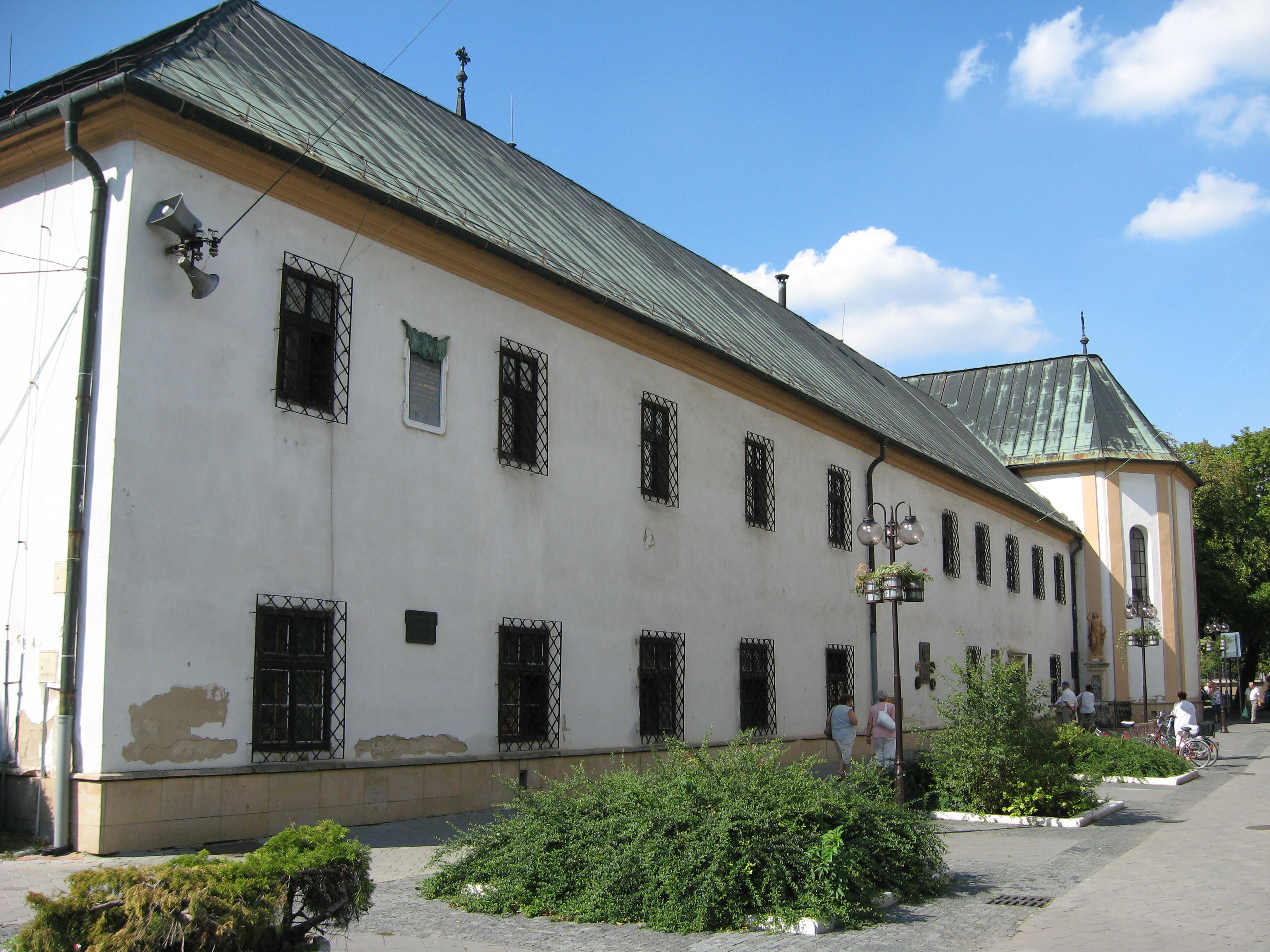 Cloister of Franciscan order in Nové Zámky